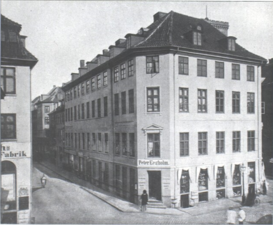 The building at the corner of Østergade and Amagertorv as it appeared after the Copenhagen Fire of 1795. Replaced by Højbrohus in the 1890s.